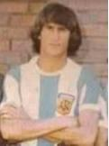 Patón Bauza de Selección